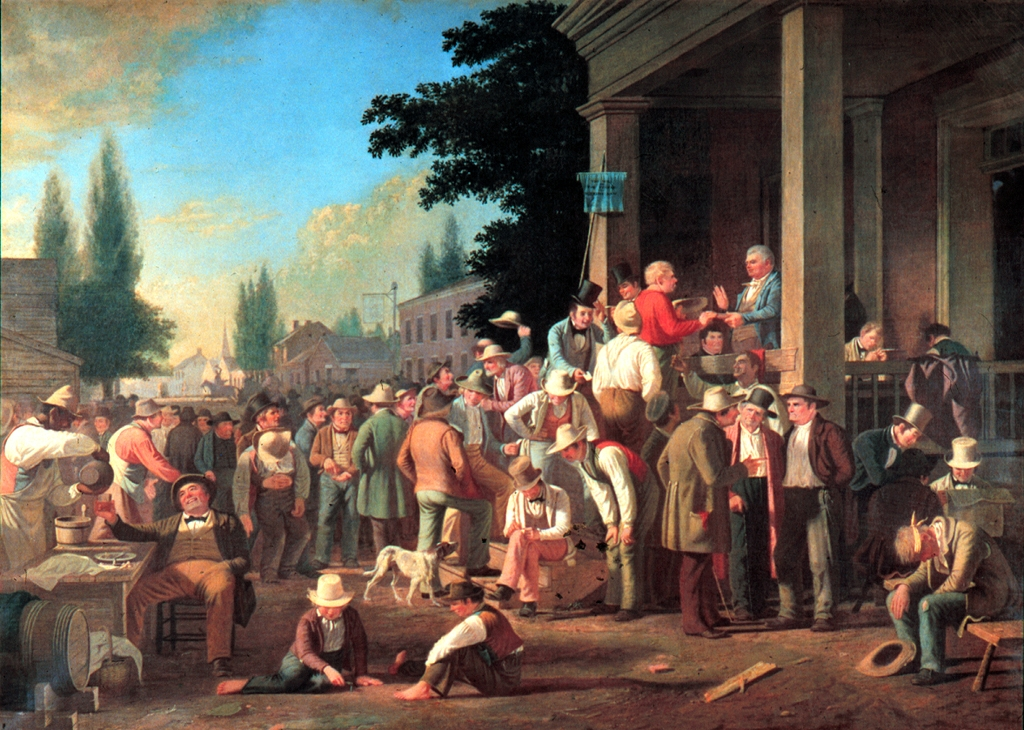 The painting shows a polling judge administering an oath to a voter, surrounded by various worrisome behavior throughout the scene.